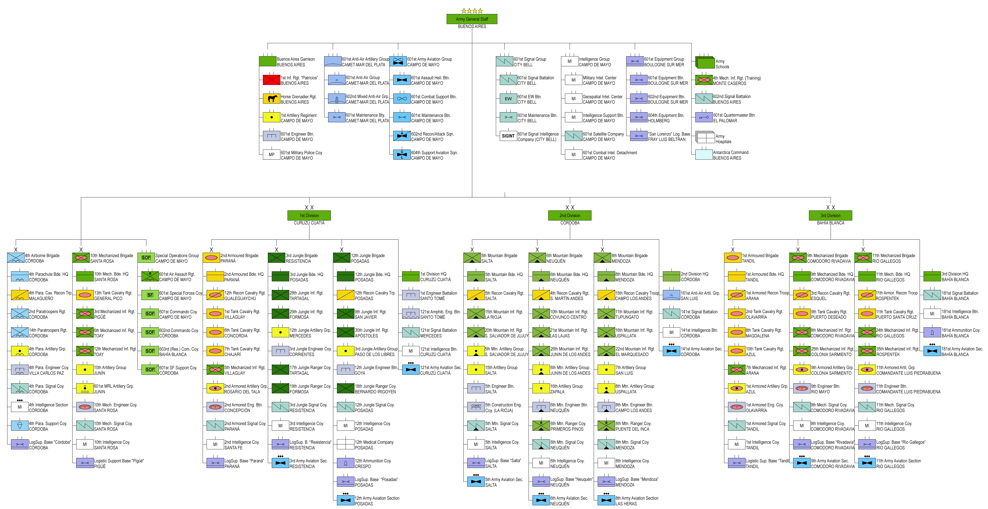 Structure of the Argentinian Army 2009 Source: Argentinian Army homepage